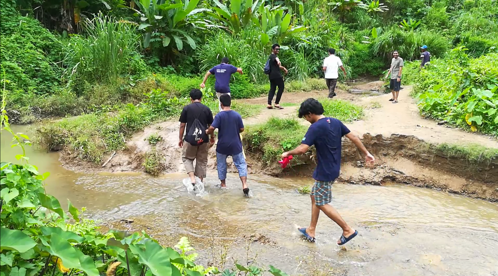 jhiripoth